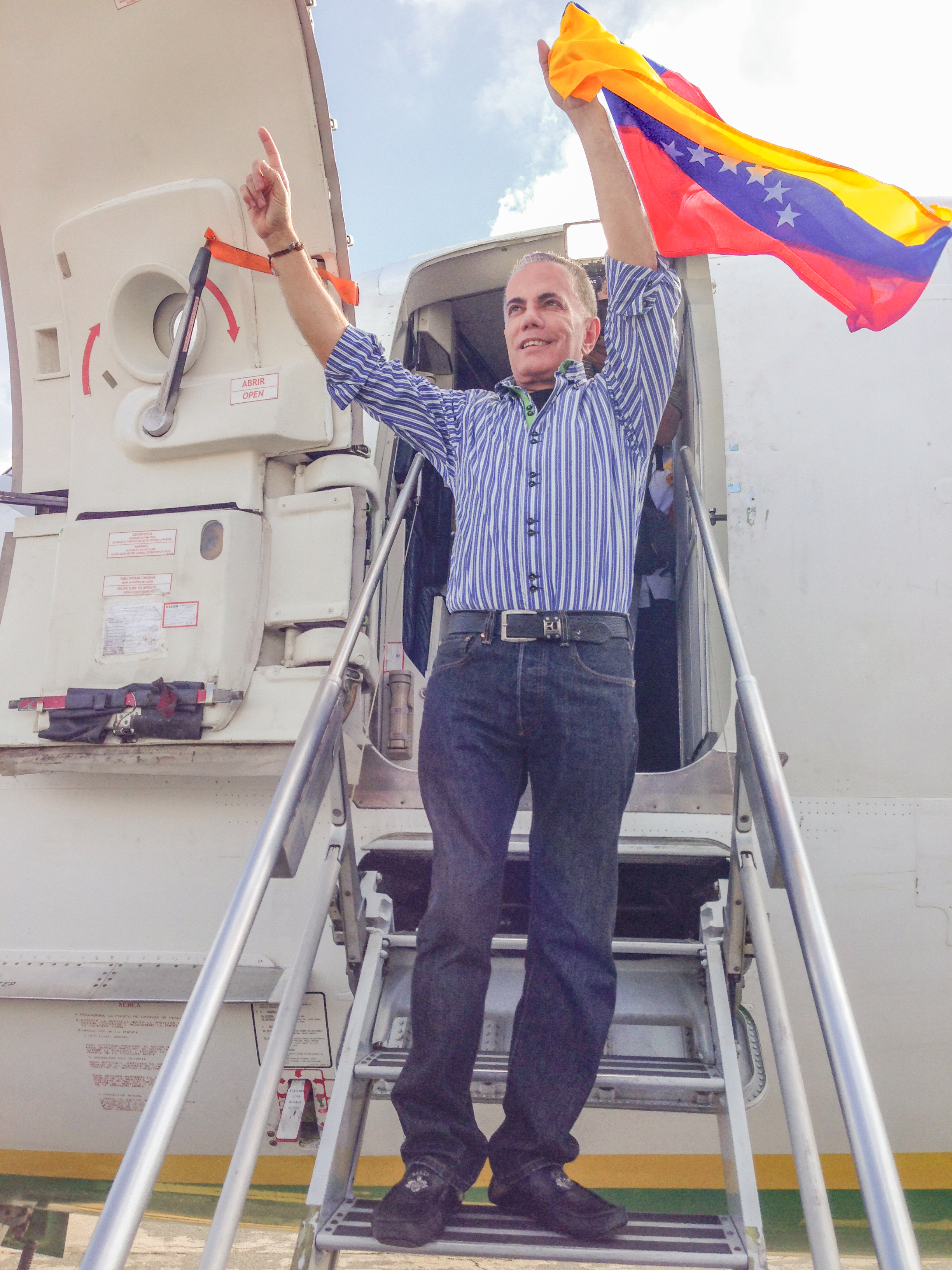 Manuel Rosales al llegar a Venezuela